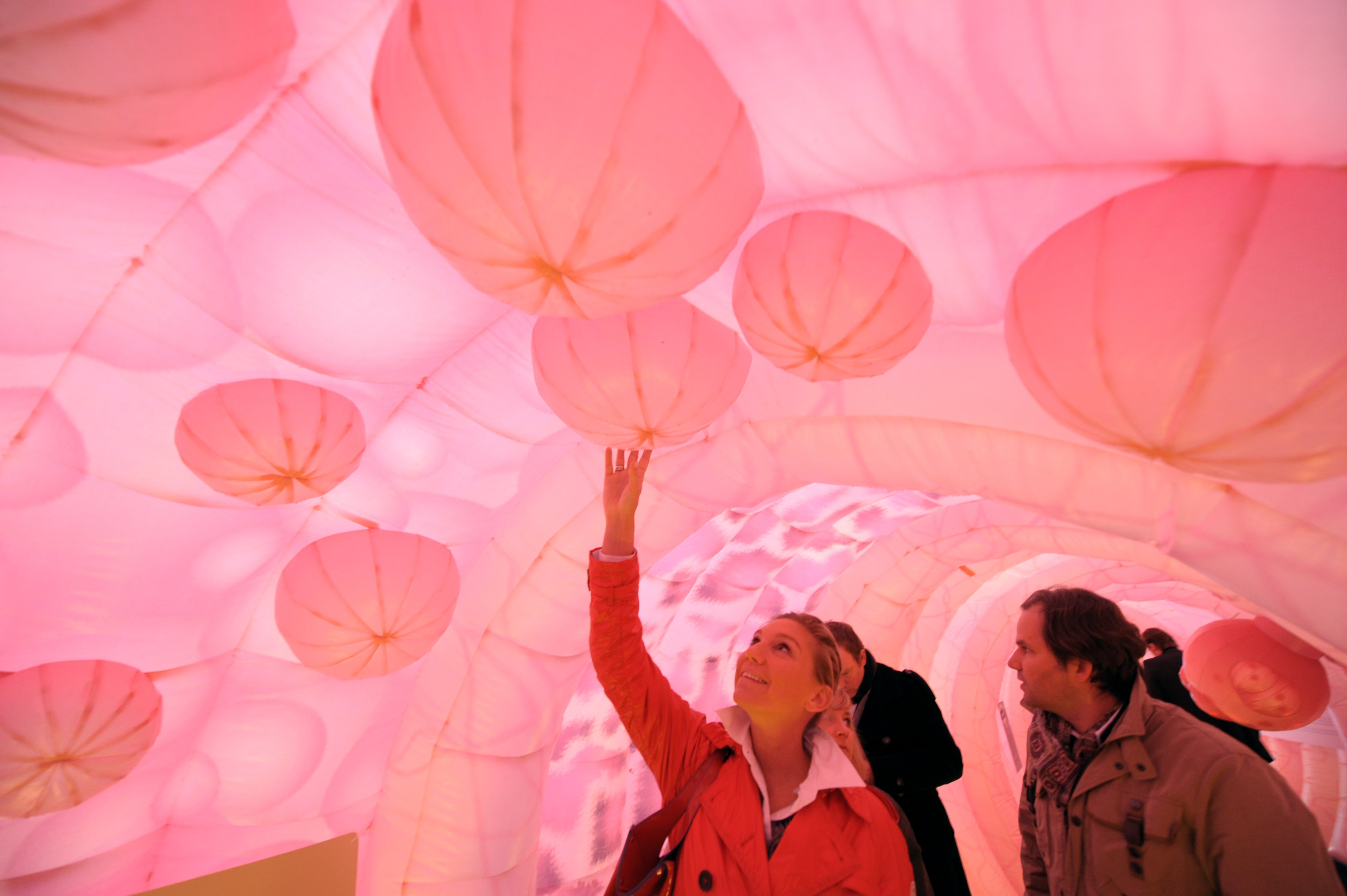 Premiere of Europes biggest colon model "Faszination Darm" (Fascination Colon) of the Felix Burda Foundation, 28.10.2009, Rosenkavalierplatz in Munich. (c)Felix Burda Foundation